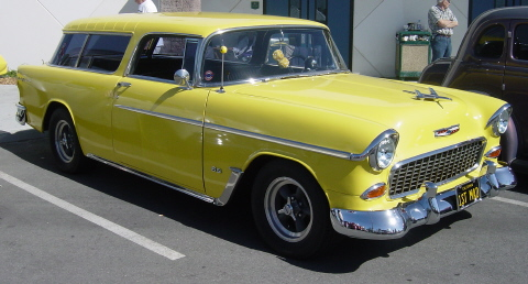 Slightly customized 1955 Chevrolet Nomad